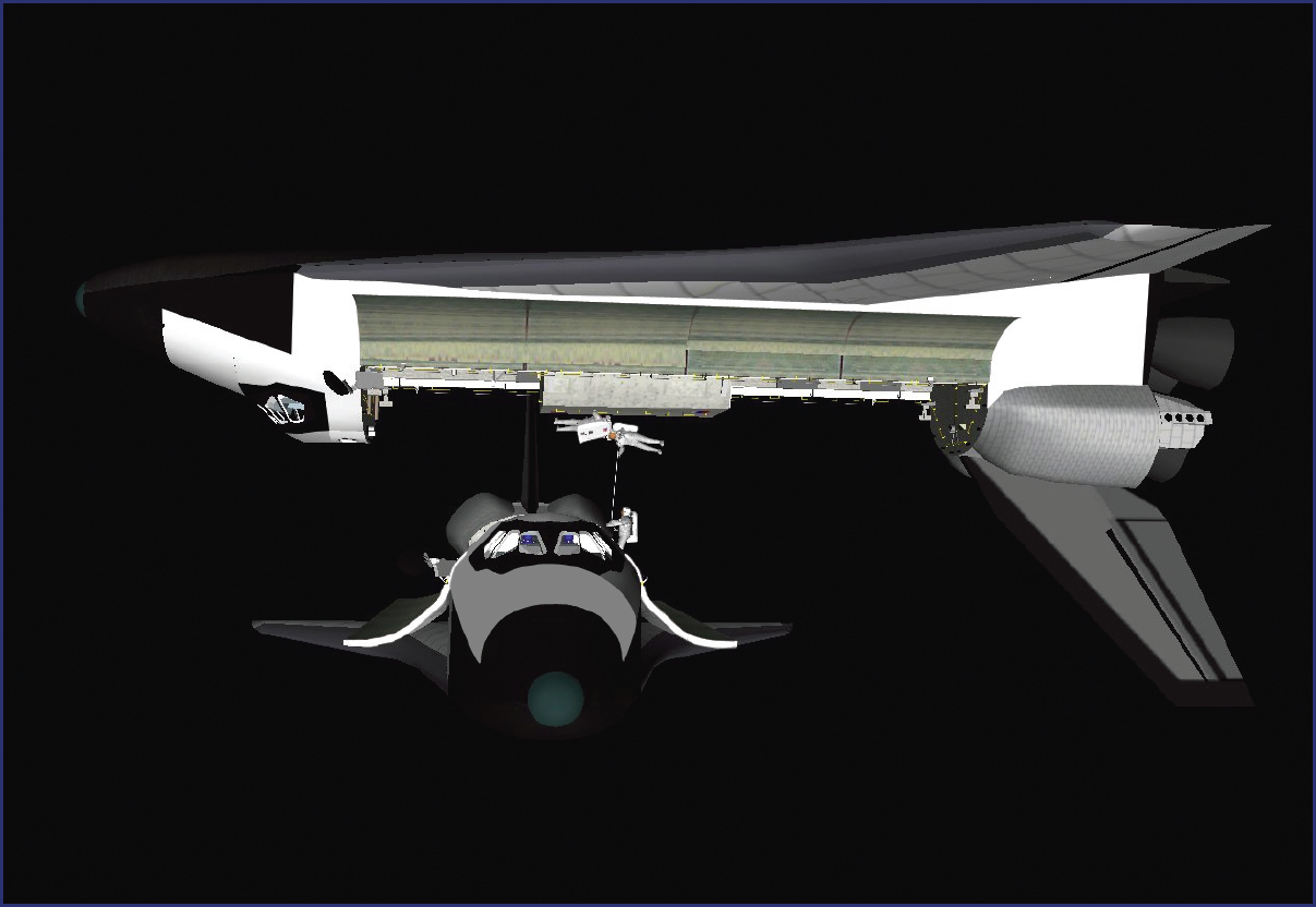 The Columbia Accident Investigation Board asked NASA to design a hypothetical rescue scenario.